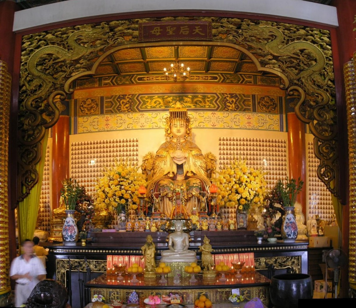 The Thean Hou temple in Kuala Lumpur.